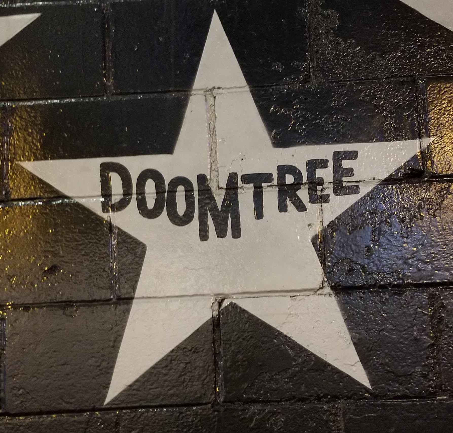 Star representing musical group Doomtree on the outside mural of the Minneapolis nightclub First Avenue